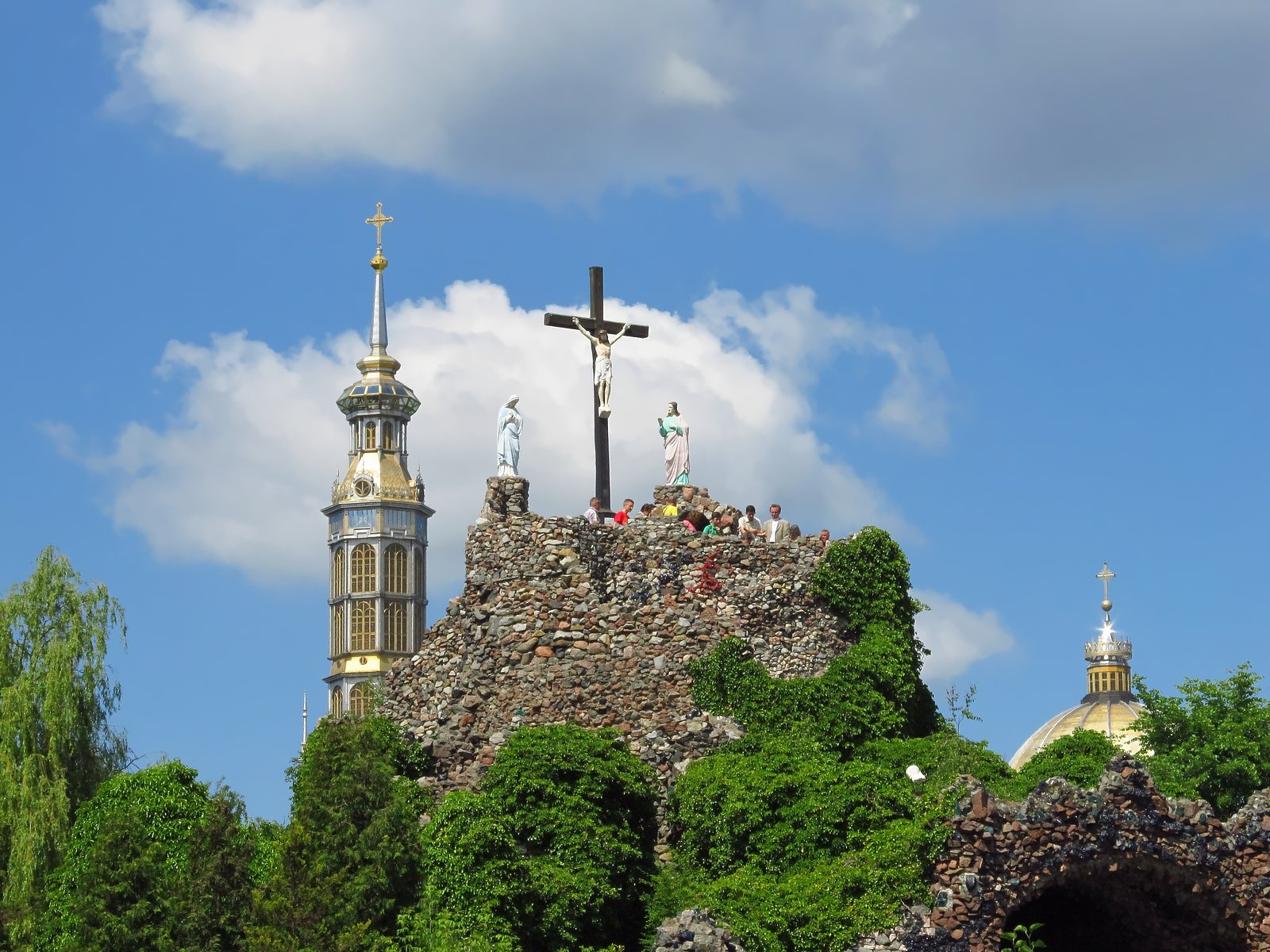 Golgotha ​​in the Sanctuary Licheń